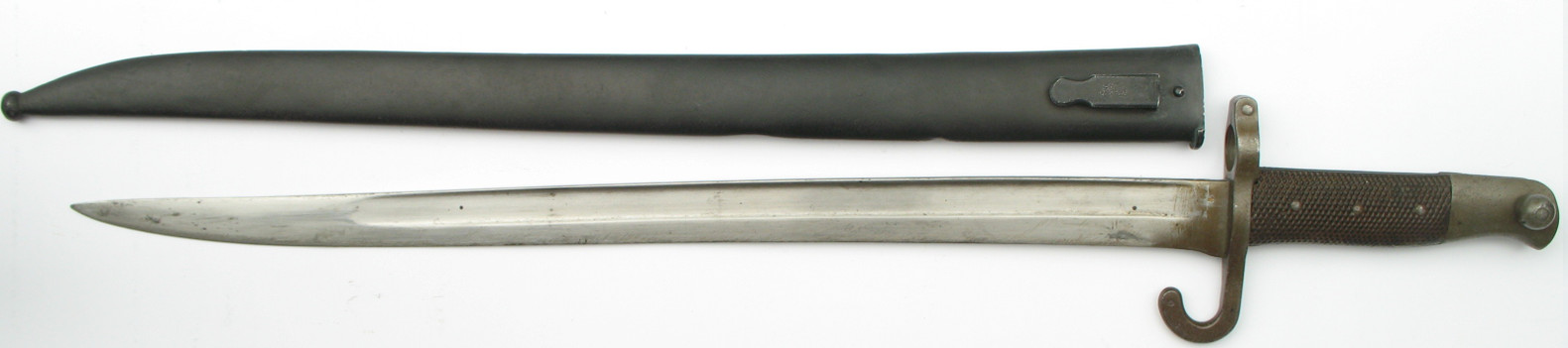 Werndl M1873 Bayonet